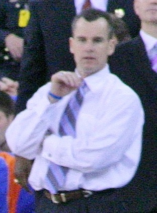 UCLA player Jordan Farmar controls the ball while defended by Florida player Lee Humphrey on April 3, 2006 during the 2006 NCAA Division I men's basketball championship game at the RCA Dome, Indianapolis, Indiana